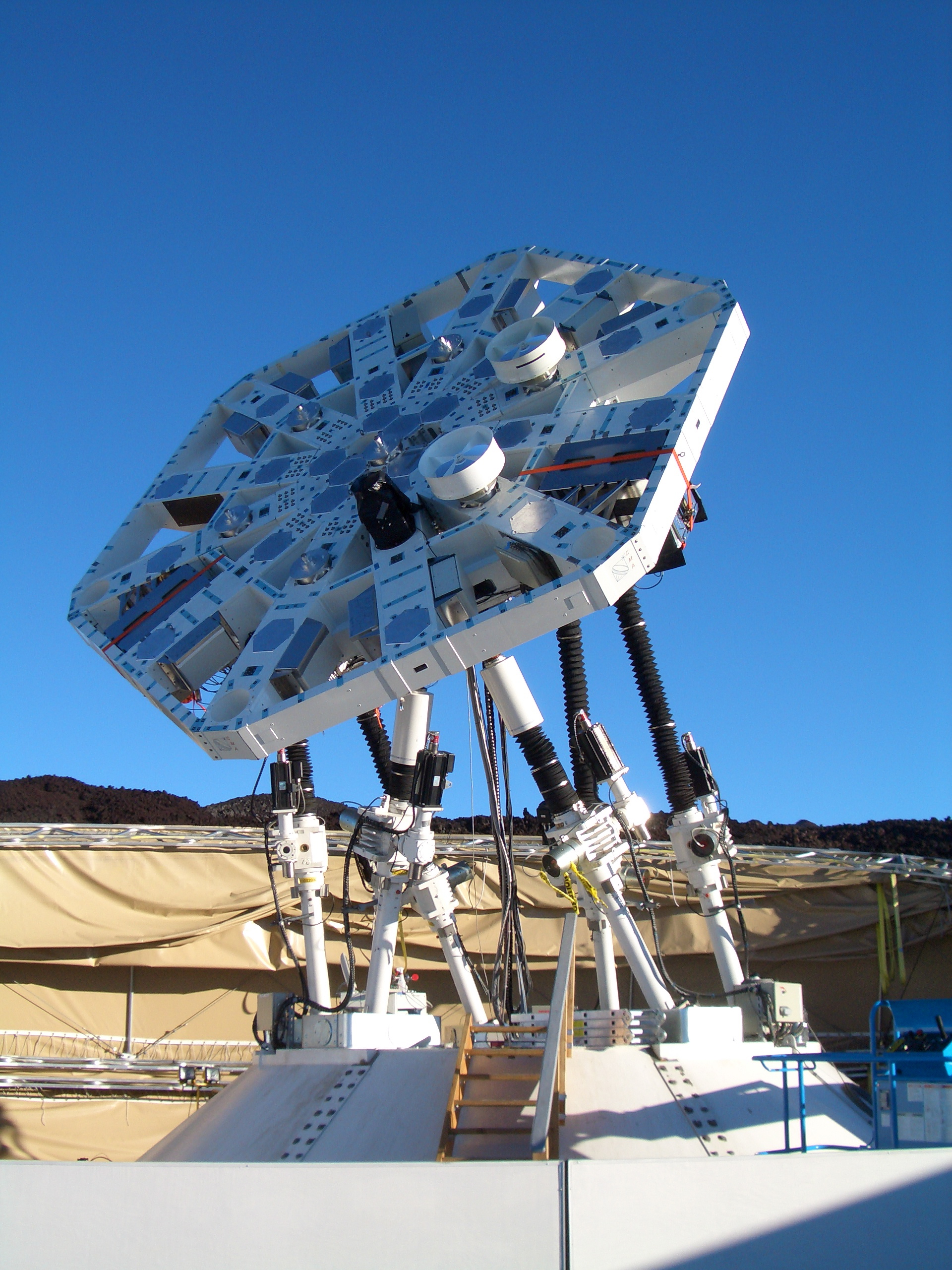 AMiBA, a Cosmic Microwave Background experiment located in Hawaii, during construction in June 2006.